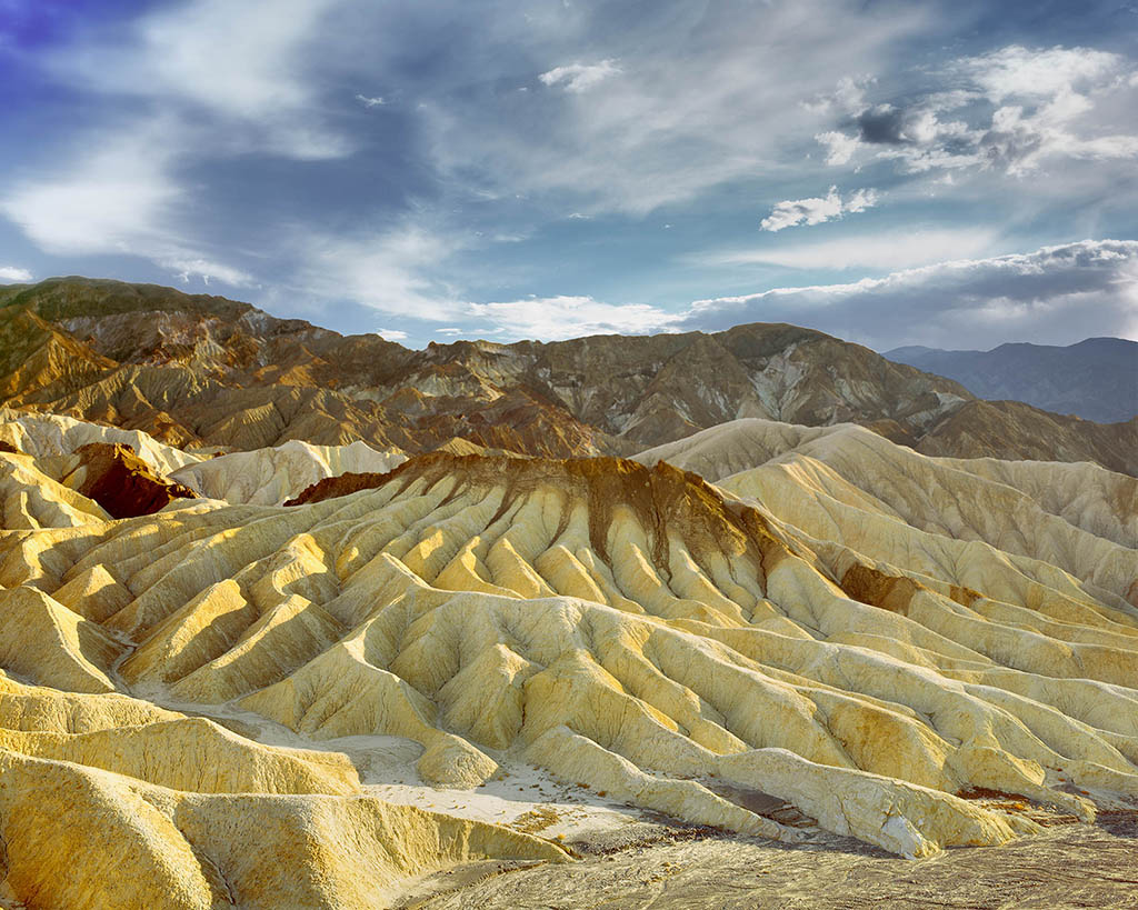 Zabriskie Point in Death Valley National Park. 4X5, 110mm